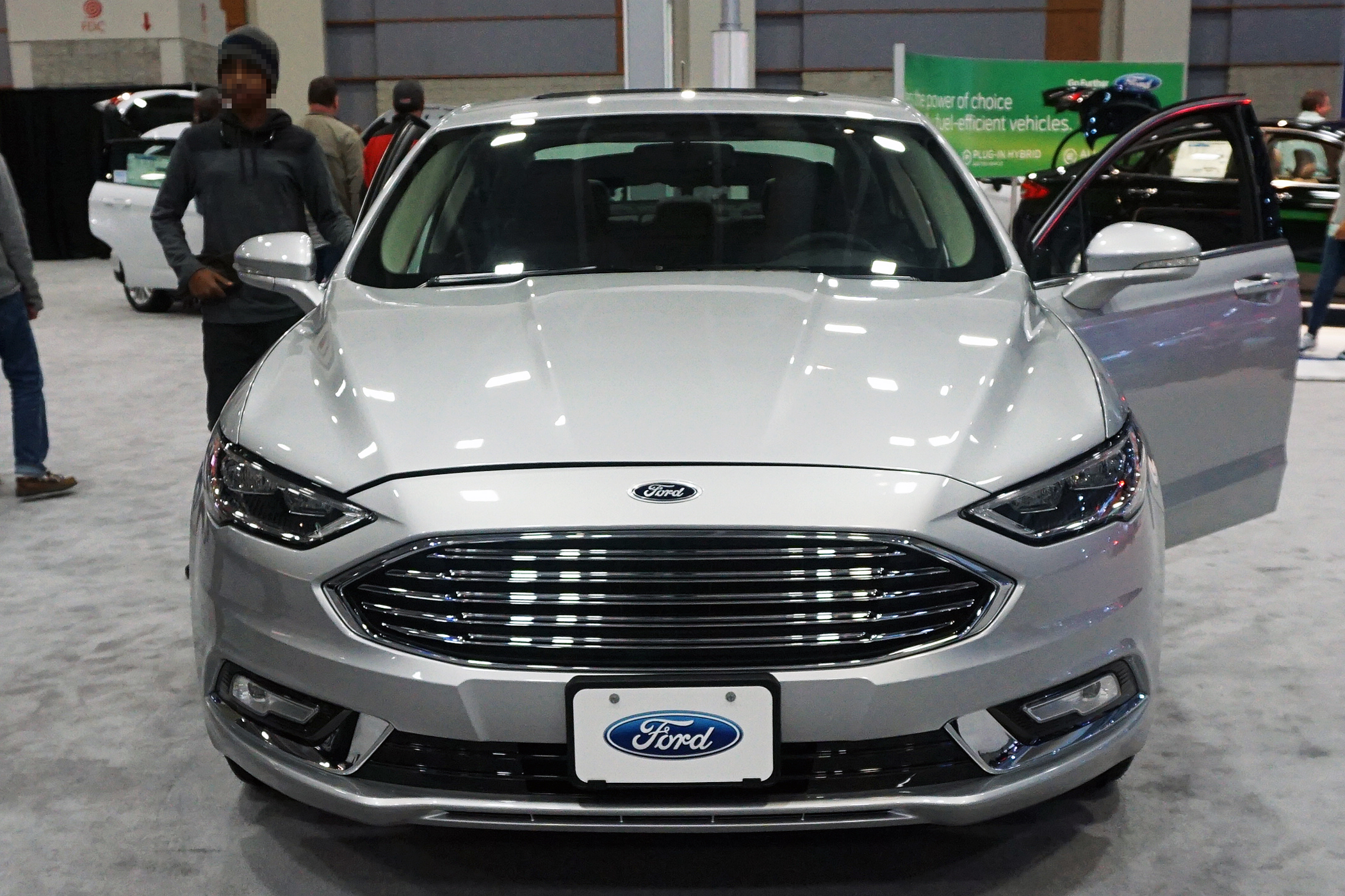 2017 Ford Fusion Hybrid at the 2017 Washington Auto Show, D.C.